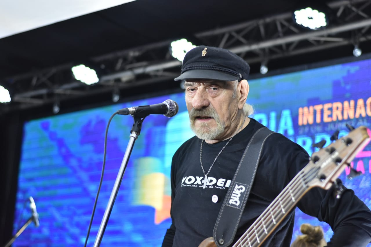 Willy Quiroga